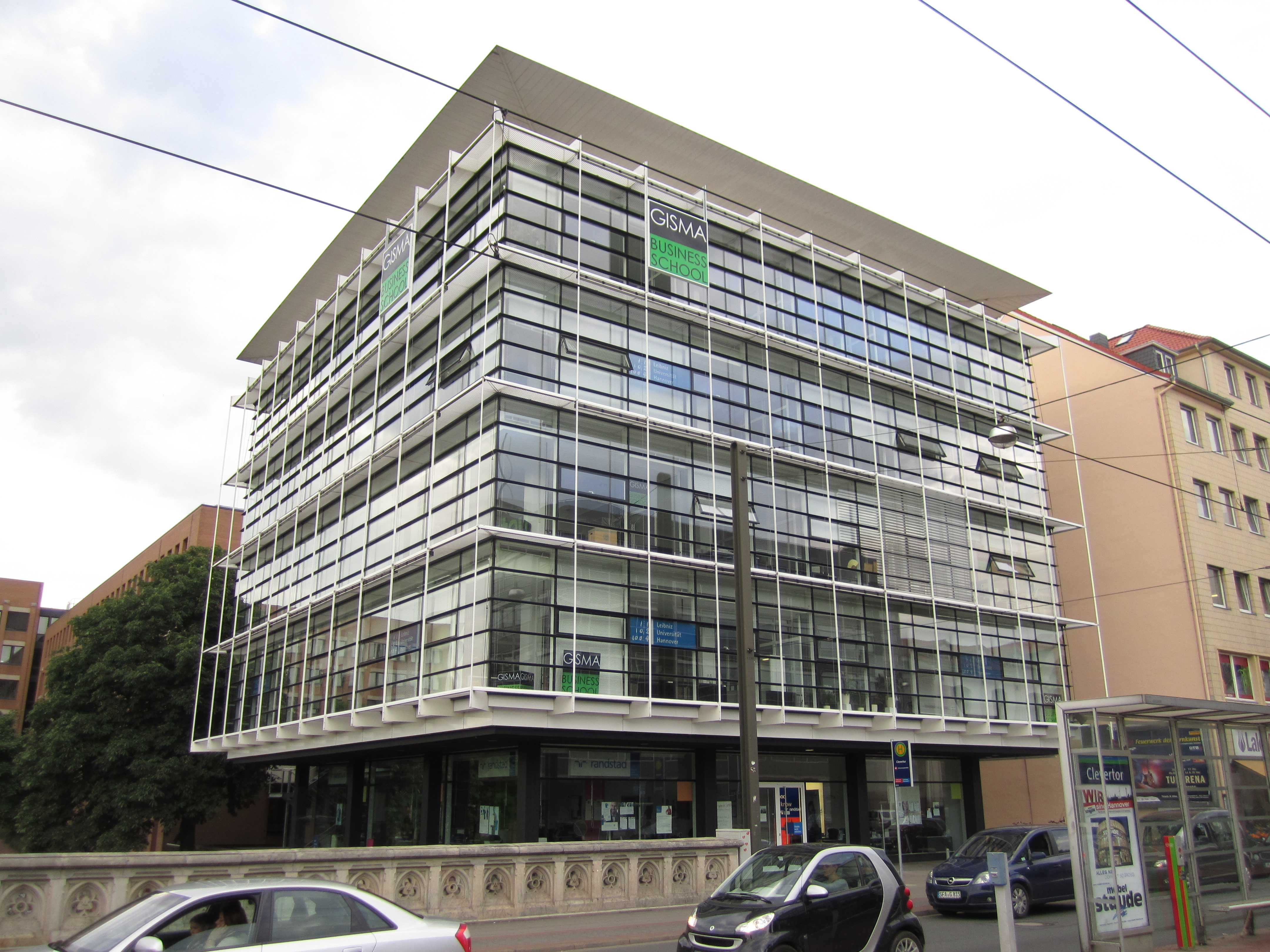 GISMA business school, Hanover, Germany.